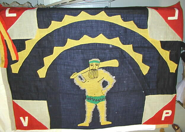 Flag of the Finnish paramilitary unit "Lapin Jääkärit" by Jalmari Ruokokoski (1886-1936). Collections of the Turku Museum Center.